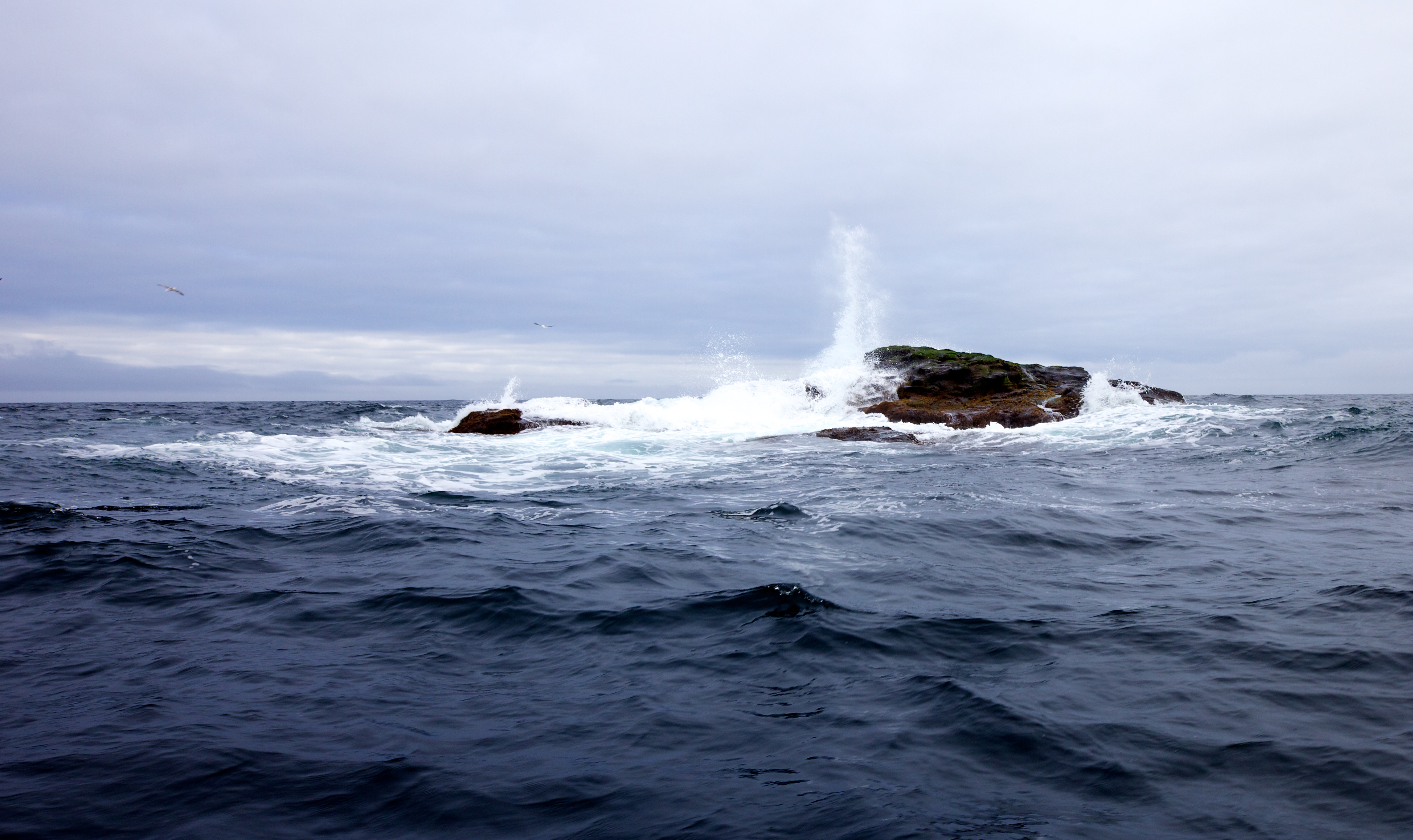 Kolbeinsøy, 105 km north of Iceland.